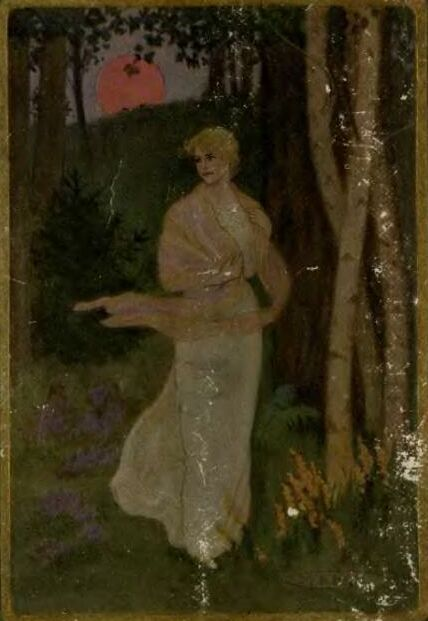 The cover photograph of Rainbow Valley.